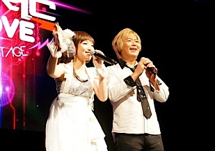 Fripside at Anime Festival Asia 2012 Stage (cropped)